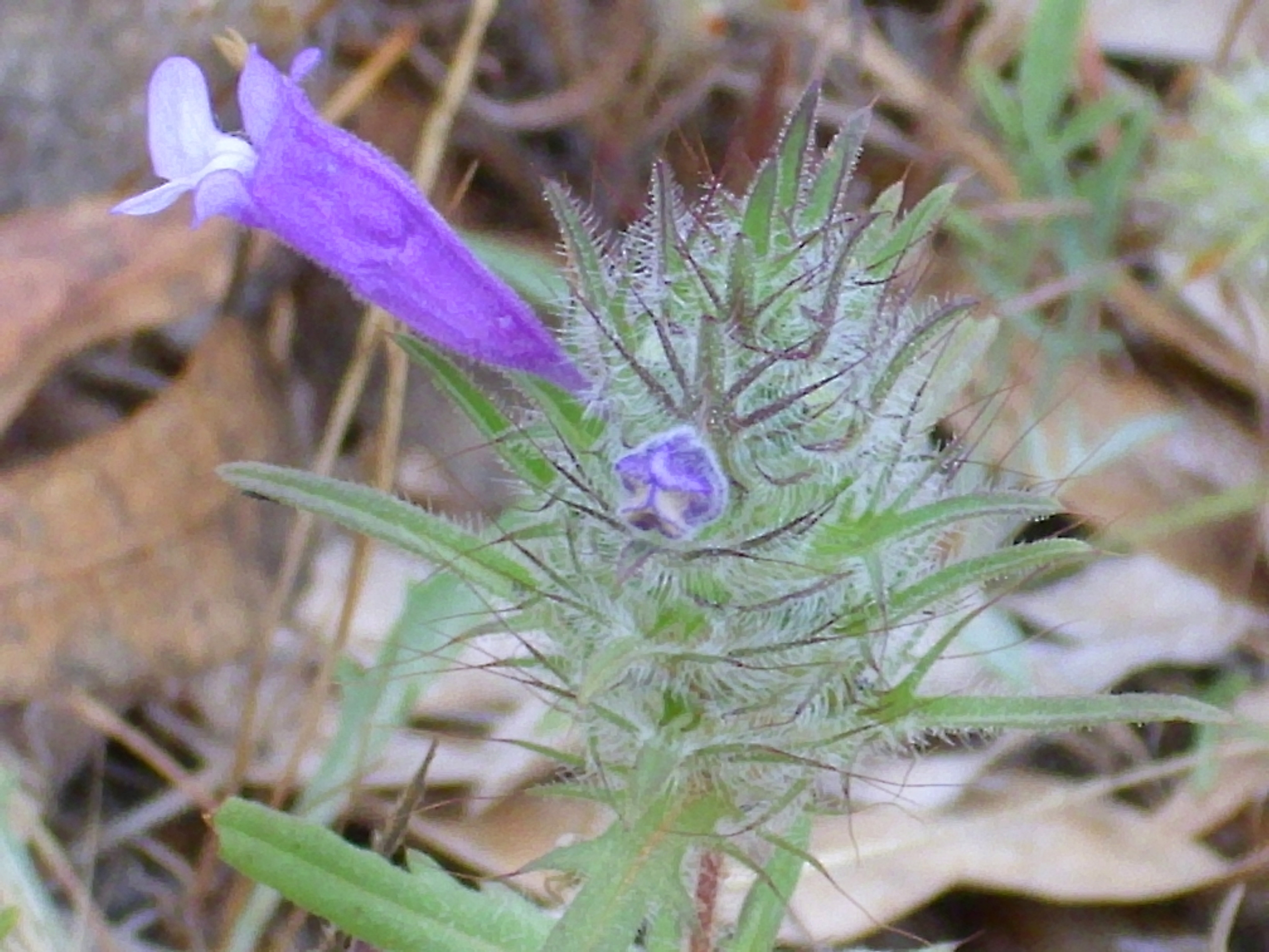 Cleonia lusitanica flower close up, Dehesa Boyal de Puertollano, Spain